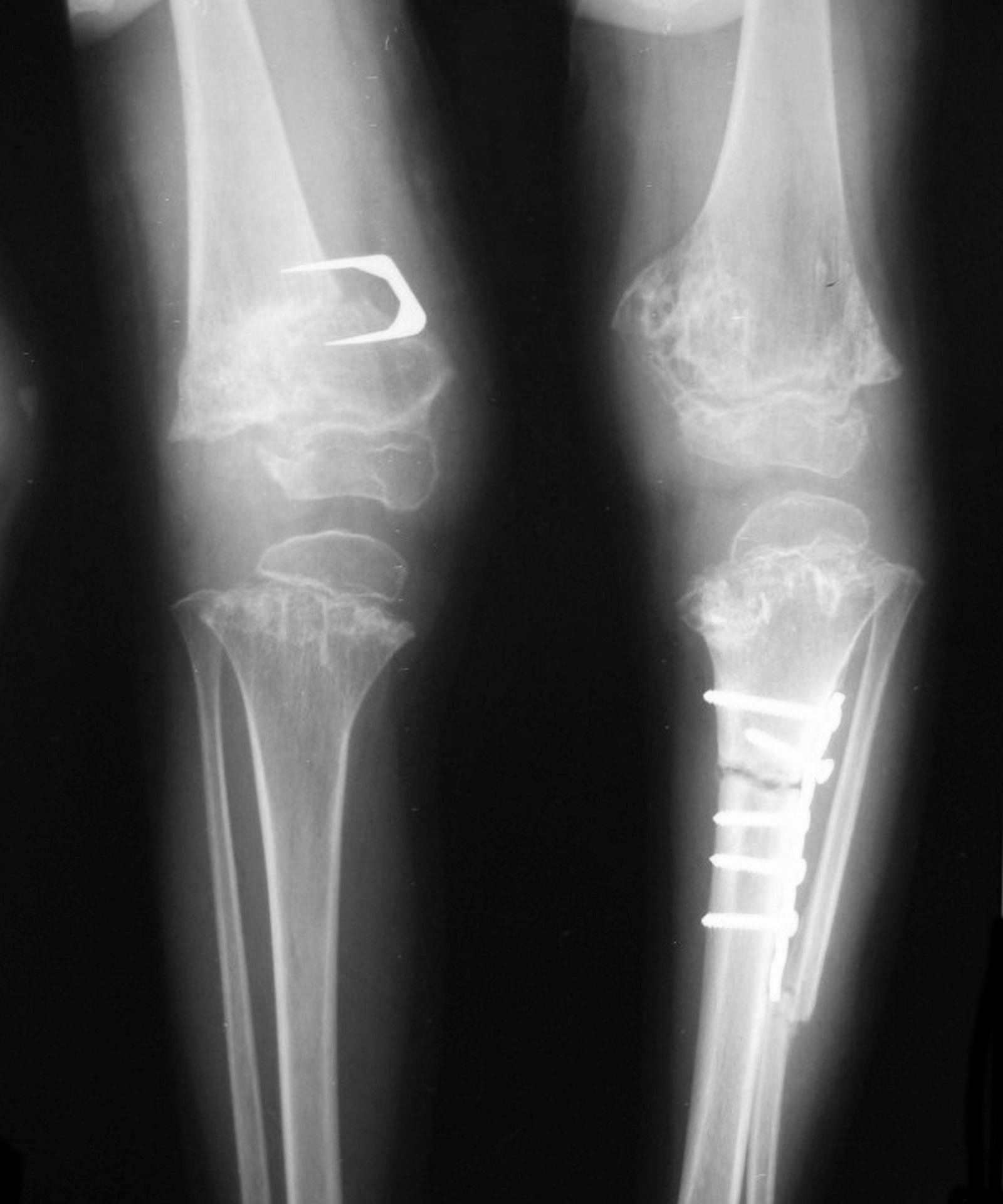 Pseudoachondroplasia. Knee radiographs AP view of a child depicting dysplastic distal femoral and proximal tibial epiphyses, with distal femoral metaphyseal broadening and irregularities. Note the metaphyseal lines of ossification of the proximal tibias and distal femora and relative sparing of the tibial shafts. The changes around the knee are known as "rachitic-like changes". Lesions are fairly symmetrical. Note the internal fixation implants used to correct a femoral valgus and tibial varus deformity.